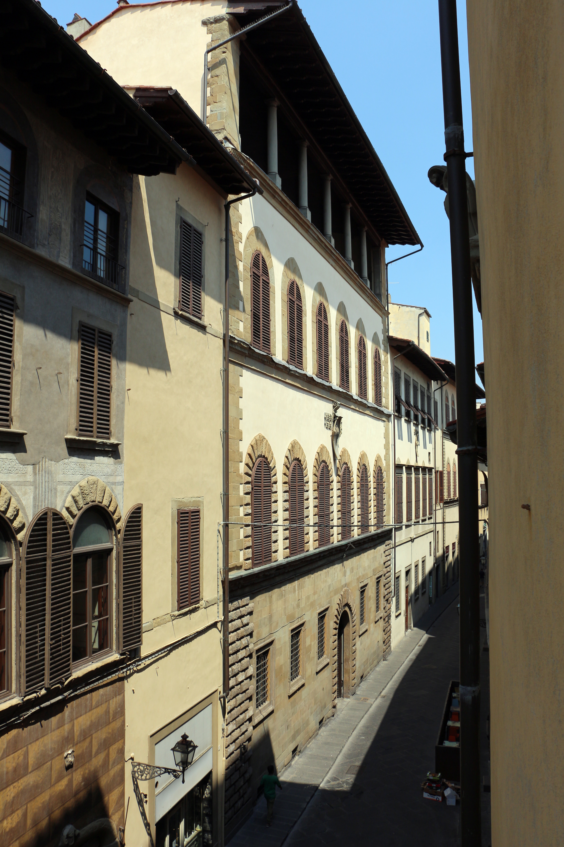 Florence